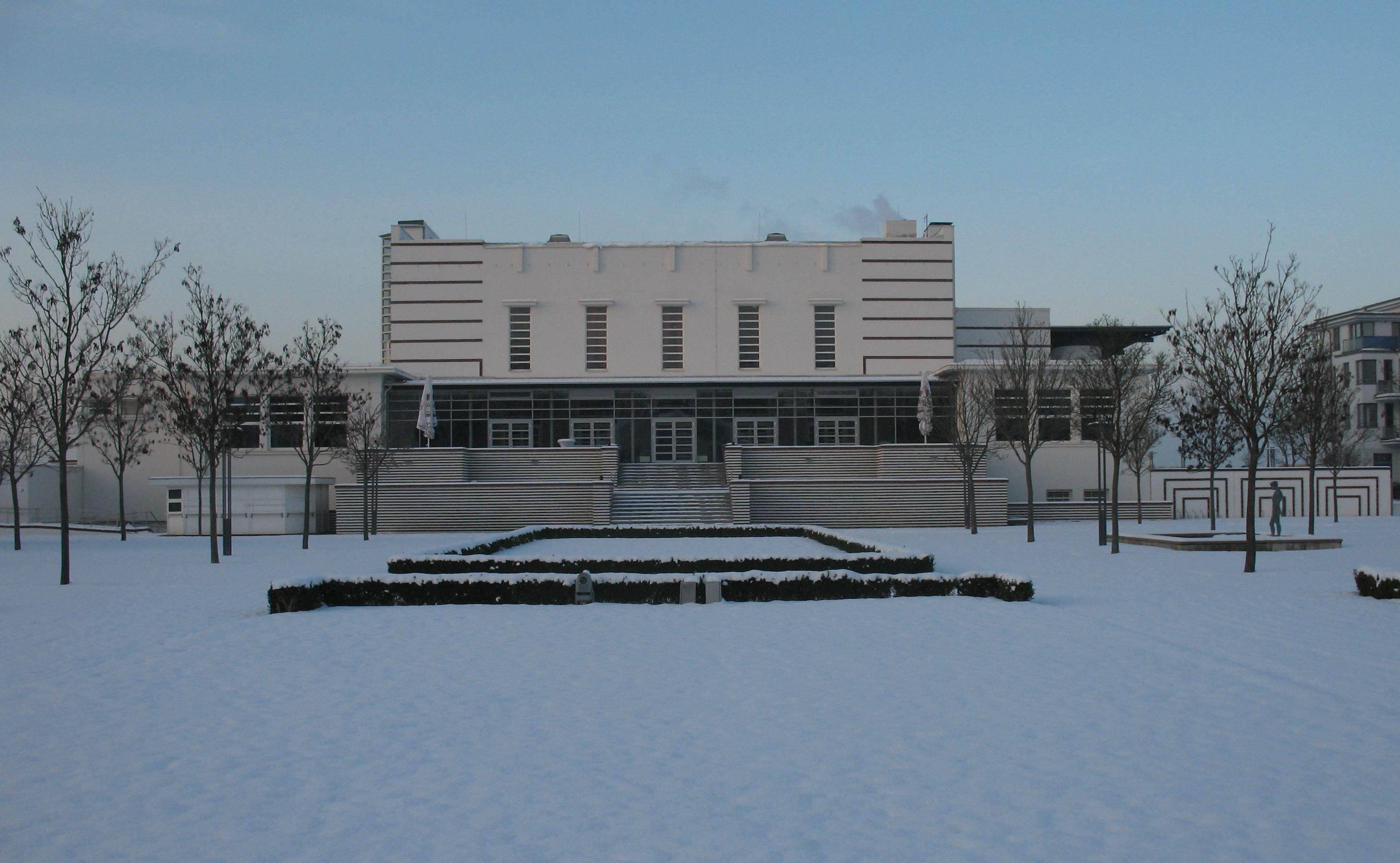 "Kurhaus" (Spa House) in Warnemünde in Mecklenburg-Western Pomerania, Germany